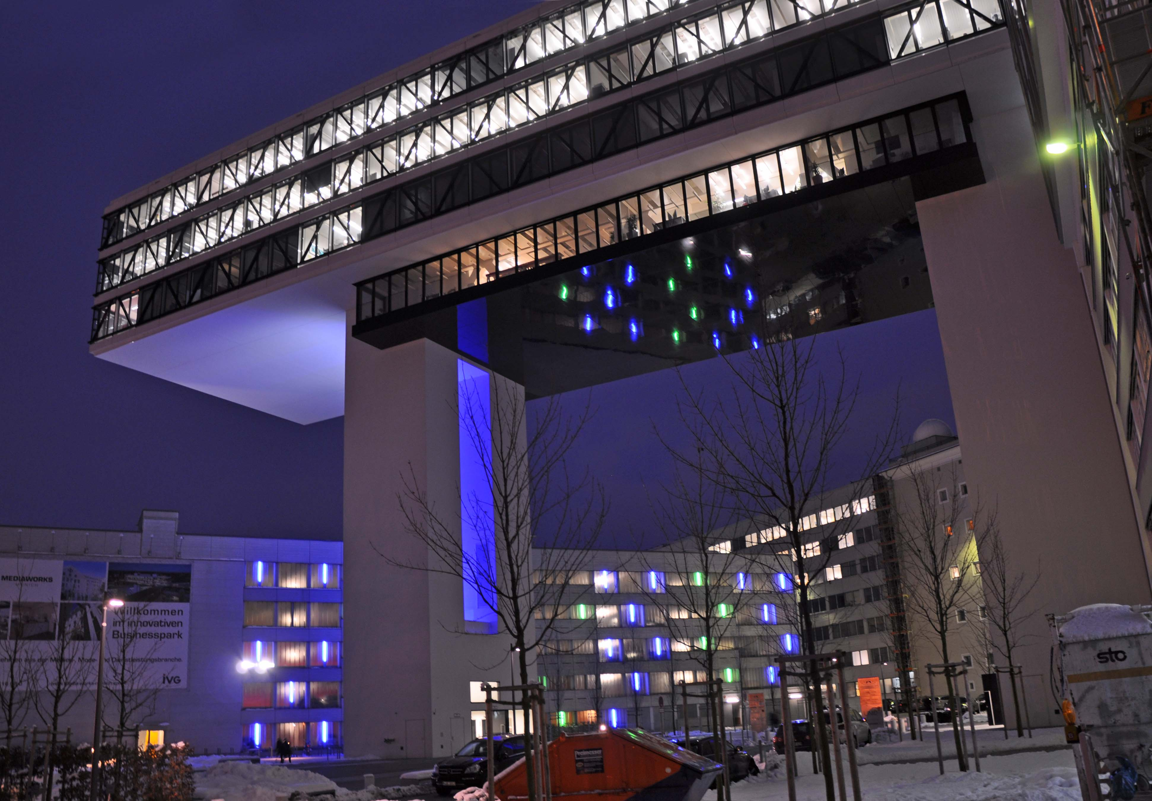 The Medienbrücke in the Werksviertel district in Munich in 2013.